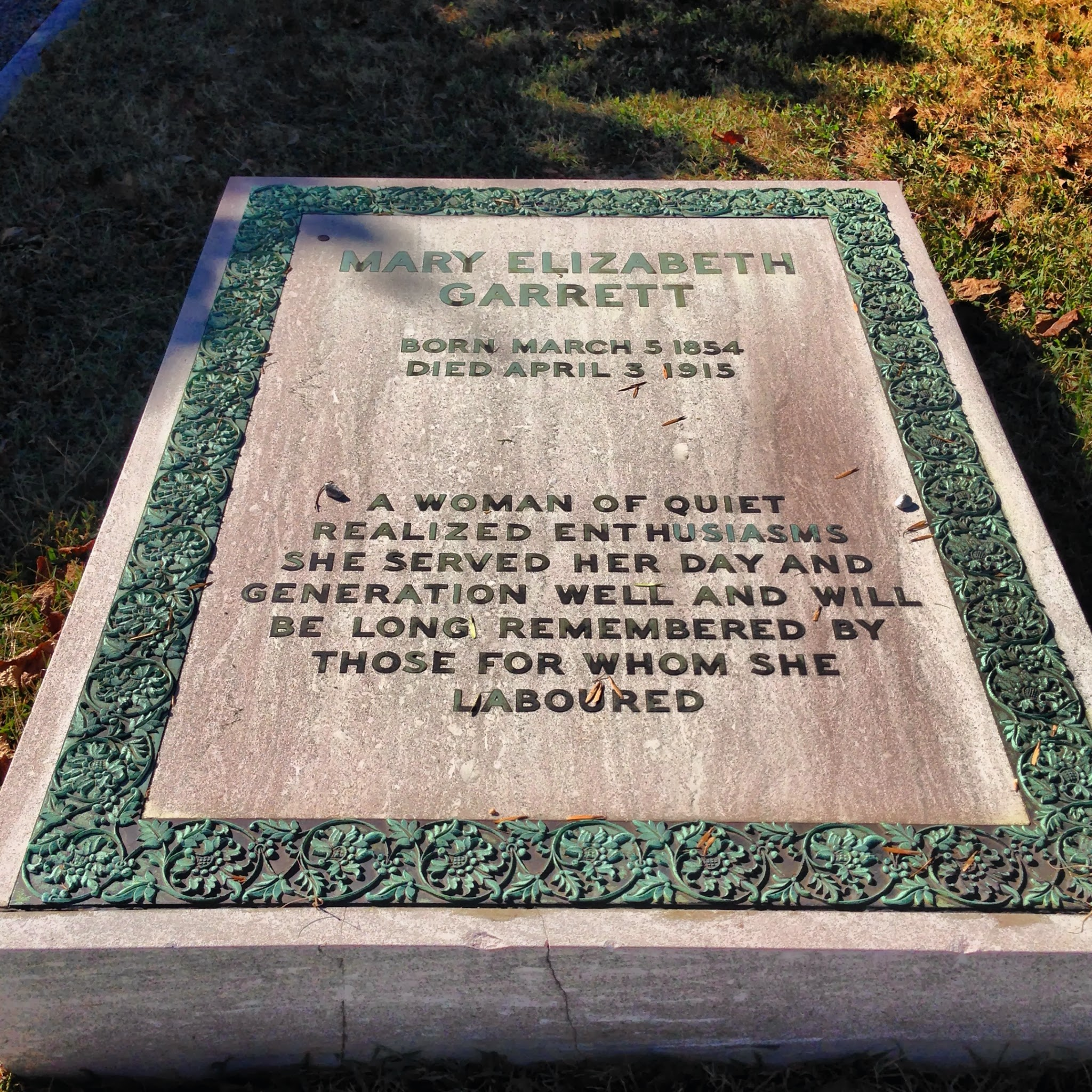 Gravesite of Mary Garrett, daughter of John W. Garrett, who helped endow the Johns Hopkins School of Medicine on the condition that it admit women as well as men.